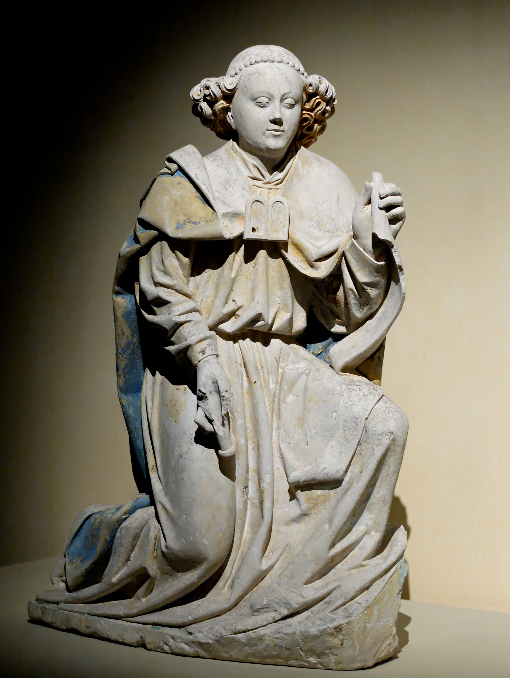 Angel Gabriel: element from an Annunciation. Limestone with traces of polychromy, Normandy, ca. 1490.